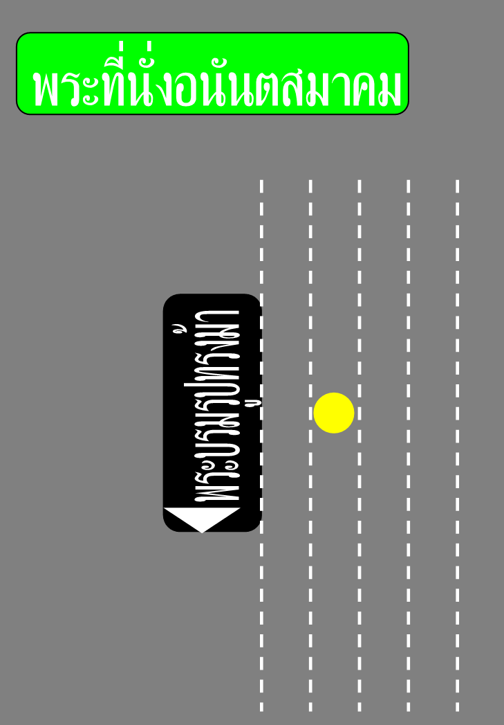 Memorial peg of Siamese Revolution of 1932